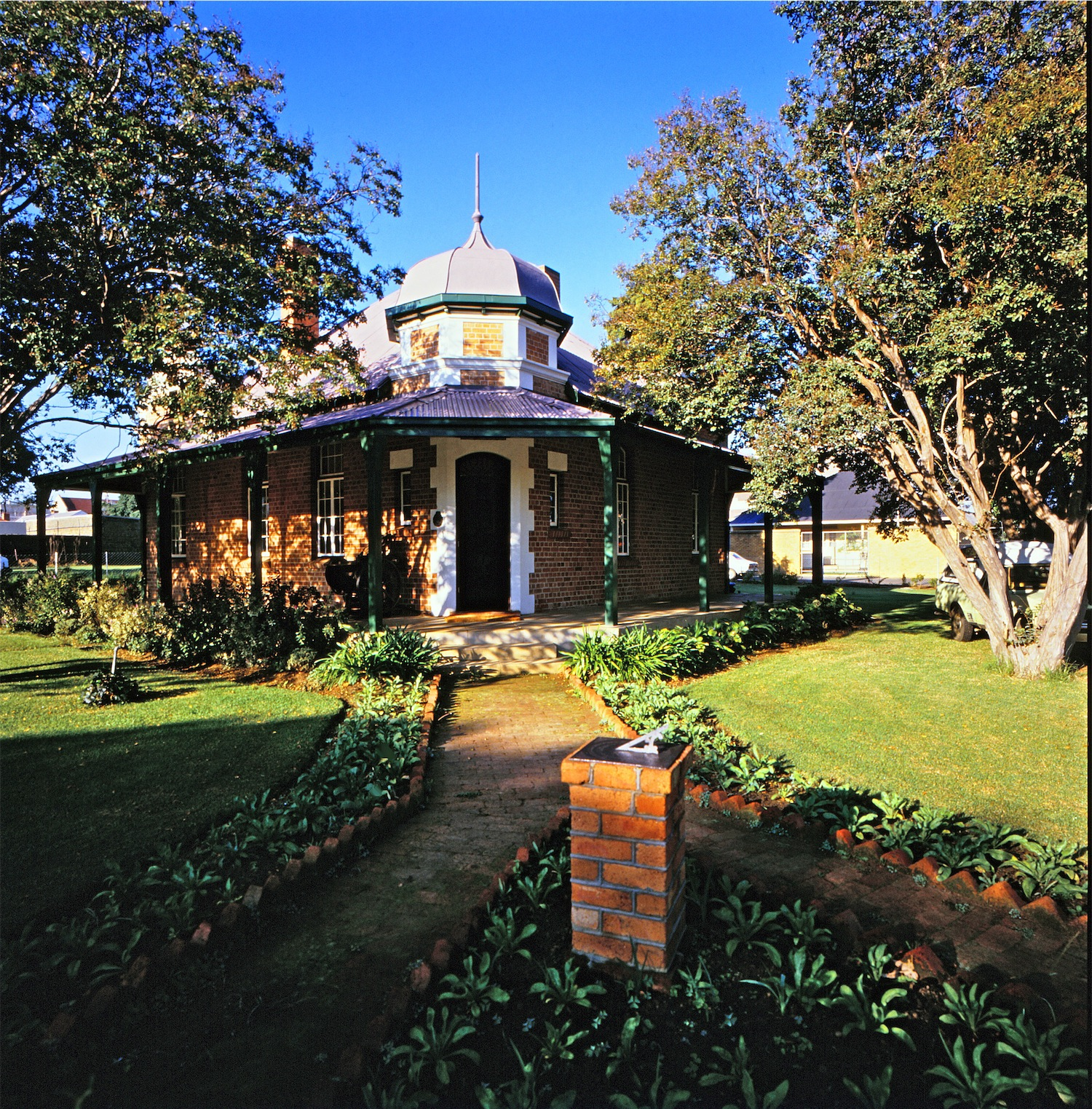 This media shows a South African Protected Site with SAHRA file reference 9/2/429/0008.